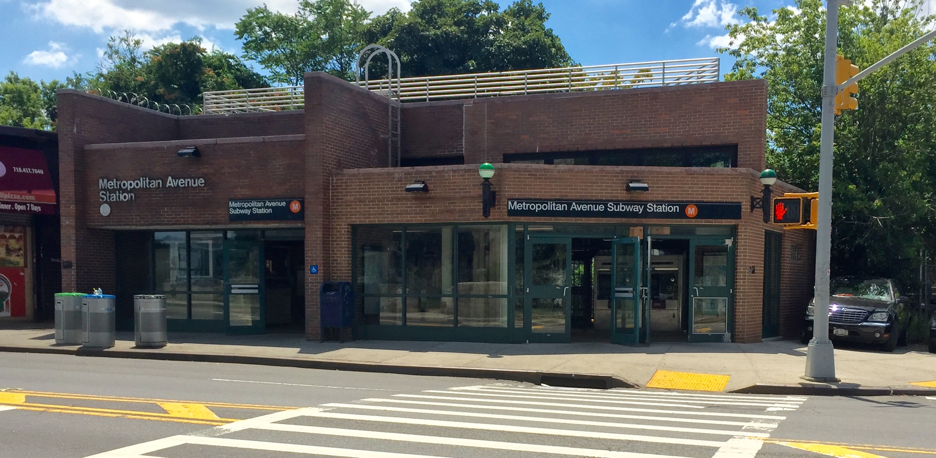 Stationhouse at Middle Village - Metropolitan Avenue on the M.